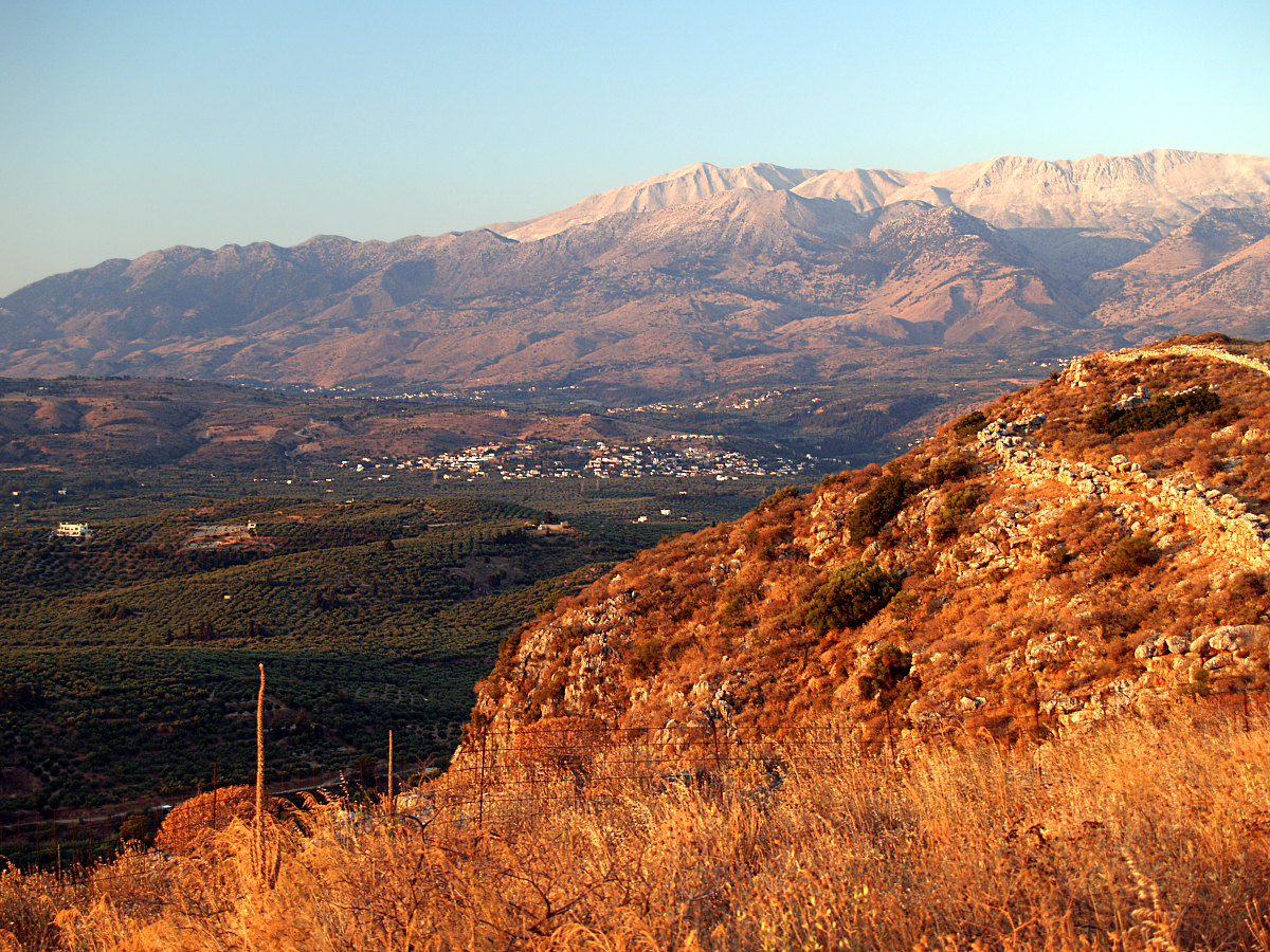 View of East tip of ancient Aptera and the Lefka Ori mountains in the background